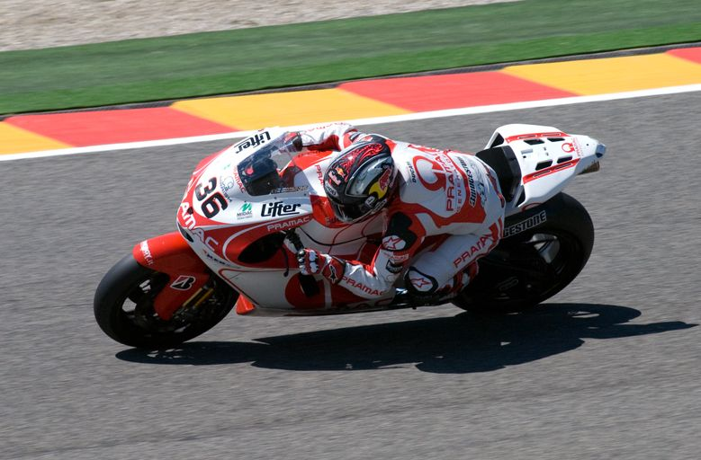 Mugello 2009 - Saturday, May 30 Mika Kallio, Ducati Desmosedici GP9 Qualifying: 17